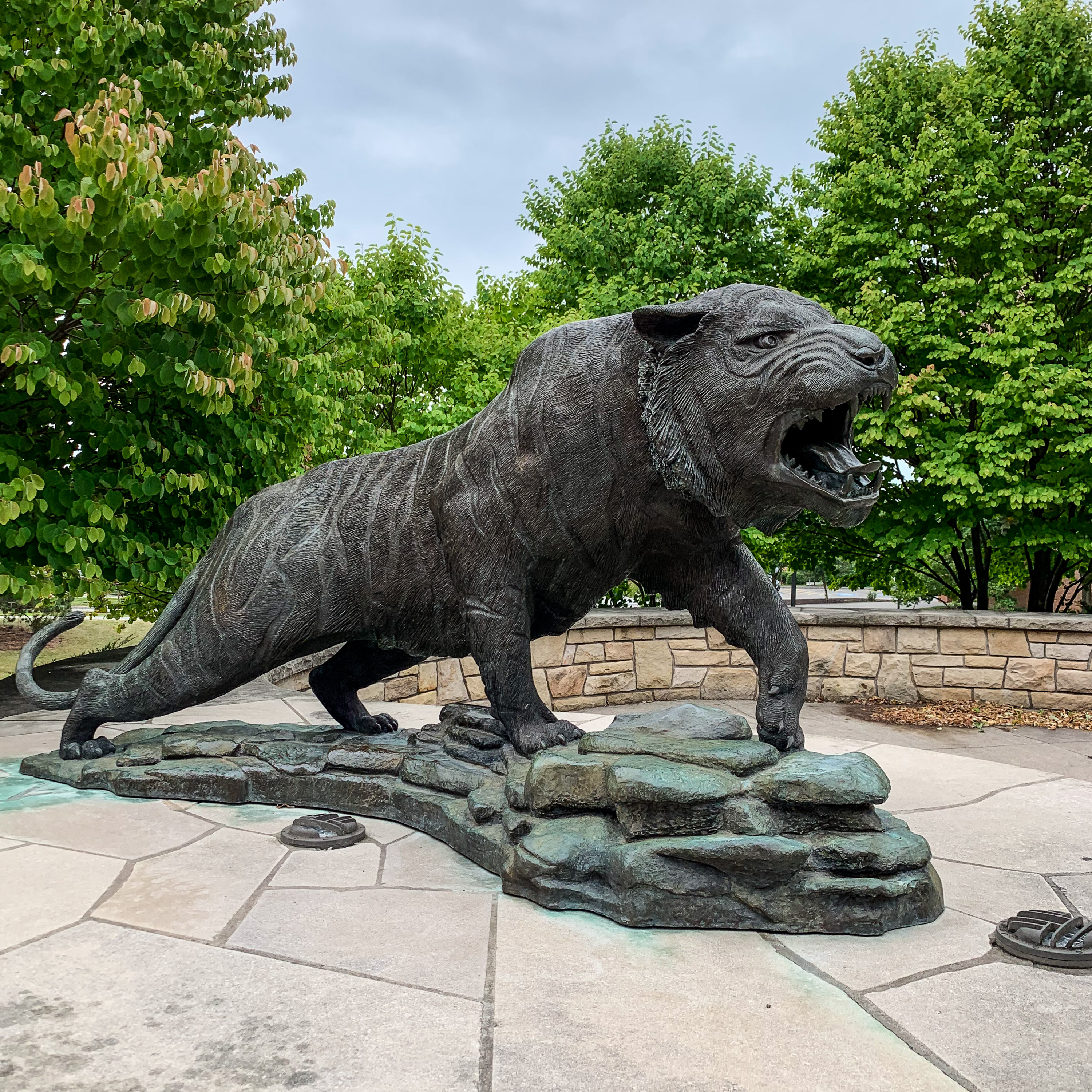 Bronzed Bengal Tiger Statue located on the Quarter Mile, Rochester Institute of Technology. The tiger statue is a representation of Spirit, the Bengal tiger cub RIT adopted as its first mascot in 1963. Created by sculptor Duff Wehle. Dedicated November 10, 1989.